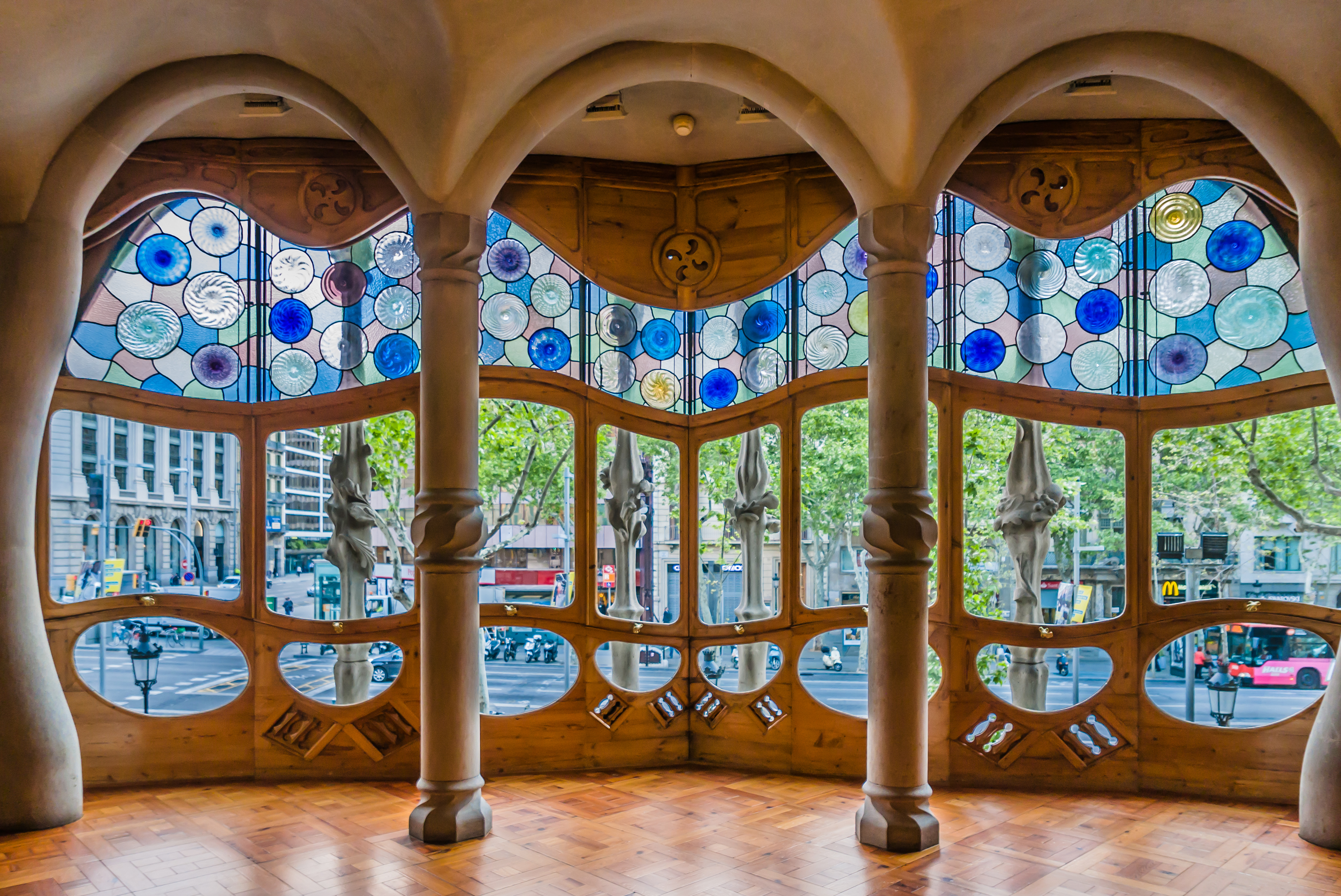 The saloon with its three interconnected spaces and large windows, providing panoramic views of Passeig de Gràcia and allowing the light to flood in, and its undulating ceiling, alluding to the power of the sea.